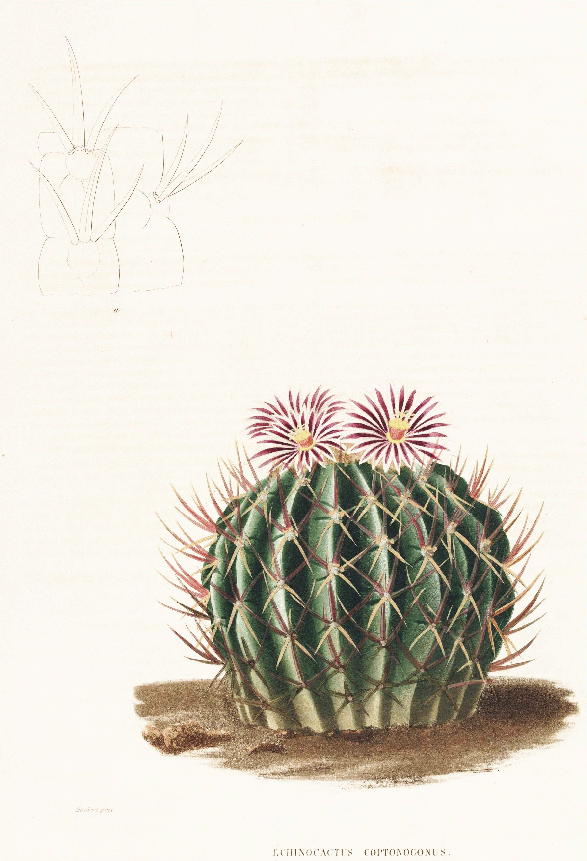 Plate from book